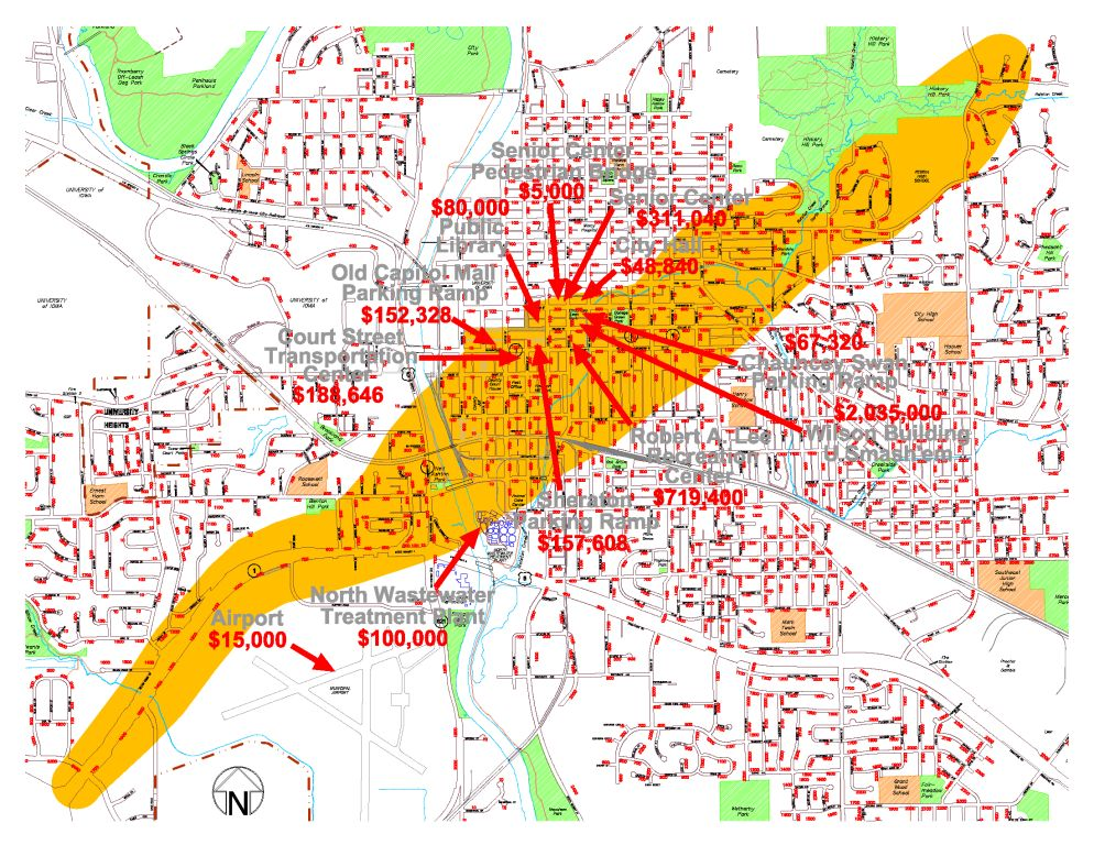 The path and damage amounts from the Iowa City tornado